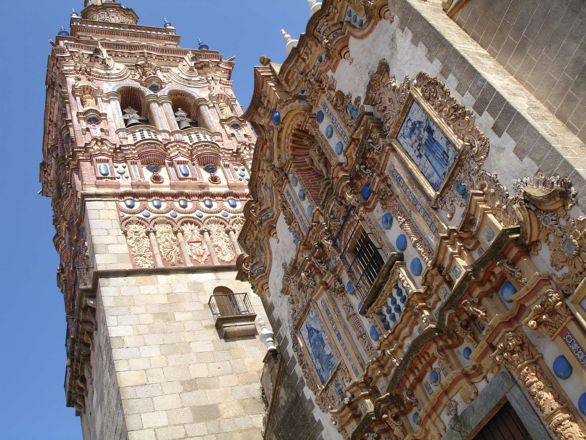 Jerez de los Caballeros San Bartolome church